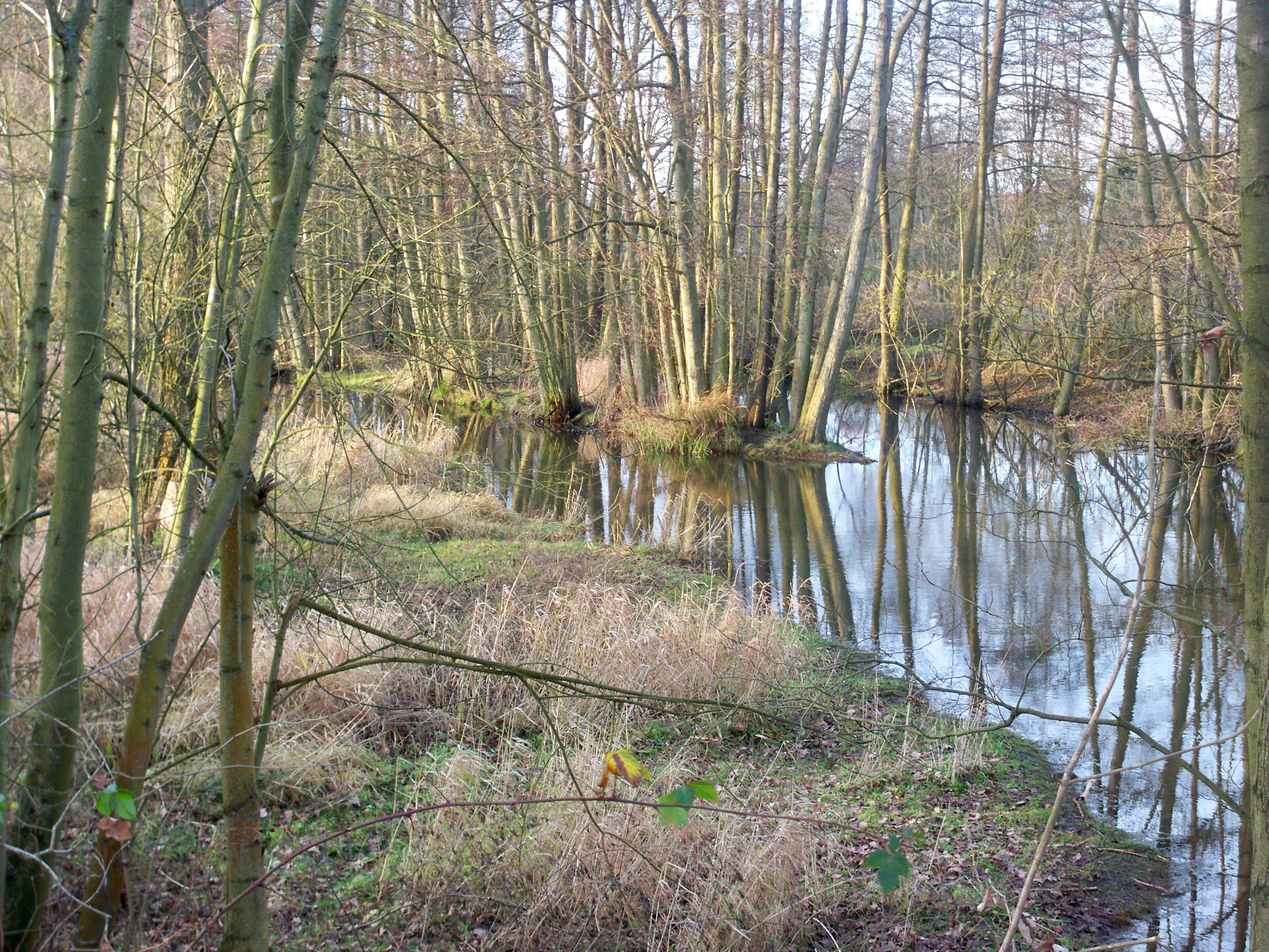 Wendischbrome, Saxony-Anhalt, Ohre river near former intra-German border